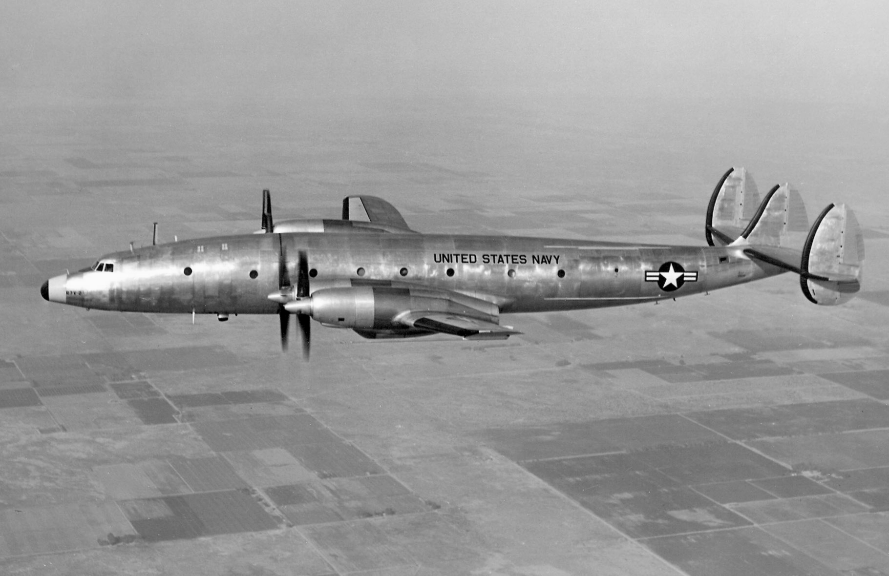 A U.S. Navy Lockheed R7V-2 Super Constellation in flight. The R7V-2 was powered by four Pratt & Whitney YT34-P-12A turboprops. Two aircraft were acquired by the Navy (BuNos 131630, 131631), and another two were ordered by the Navy for the U.S. Air Force (YC-121F, BuNos 131660, 131661).